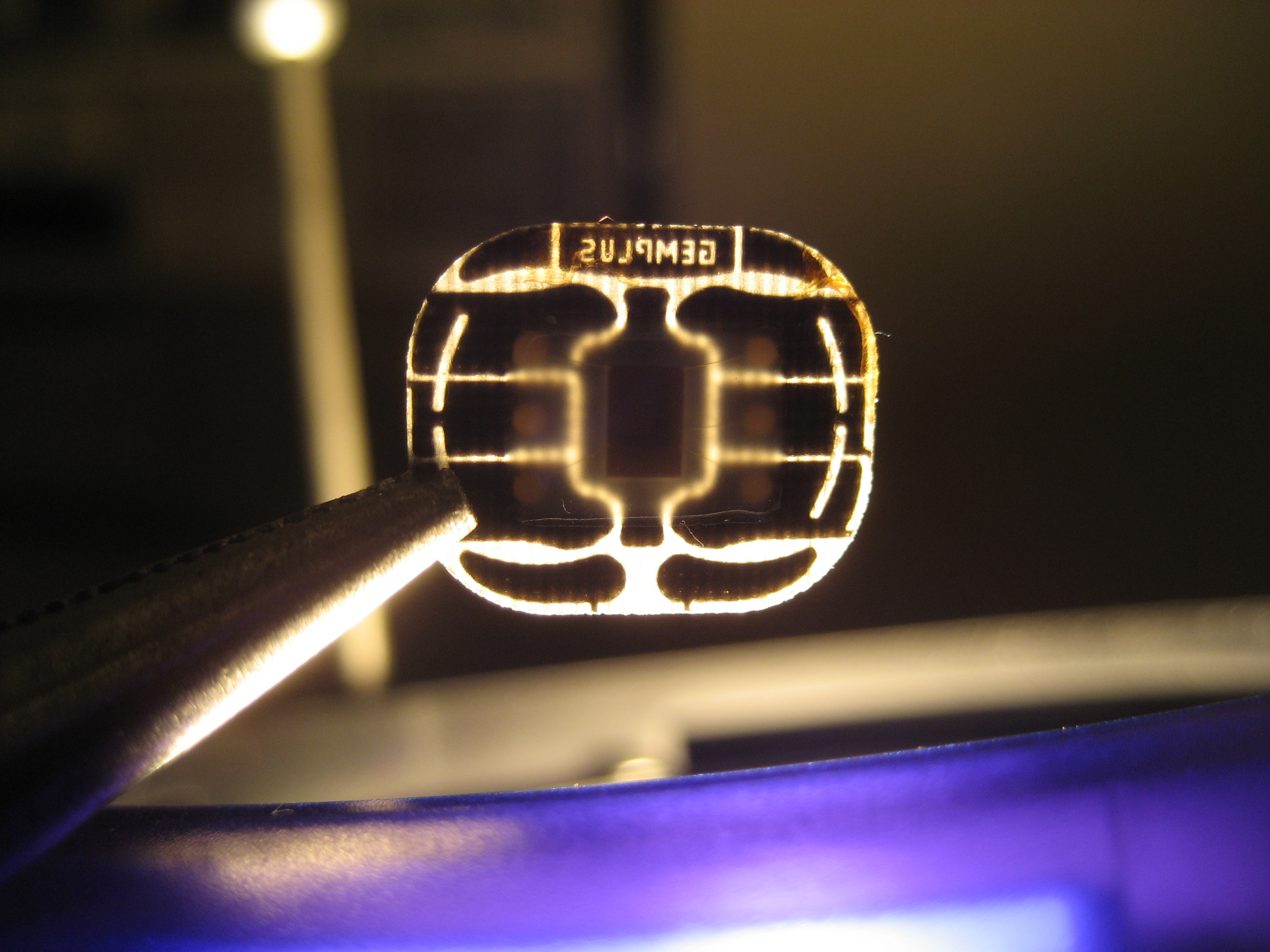 A Chip extracted from an AT&T Mobility SIM Card. You can clearly see the wires connecting the IC to the contacts. Taken in front of a very bright light so you can see through the board.